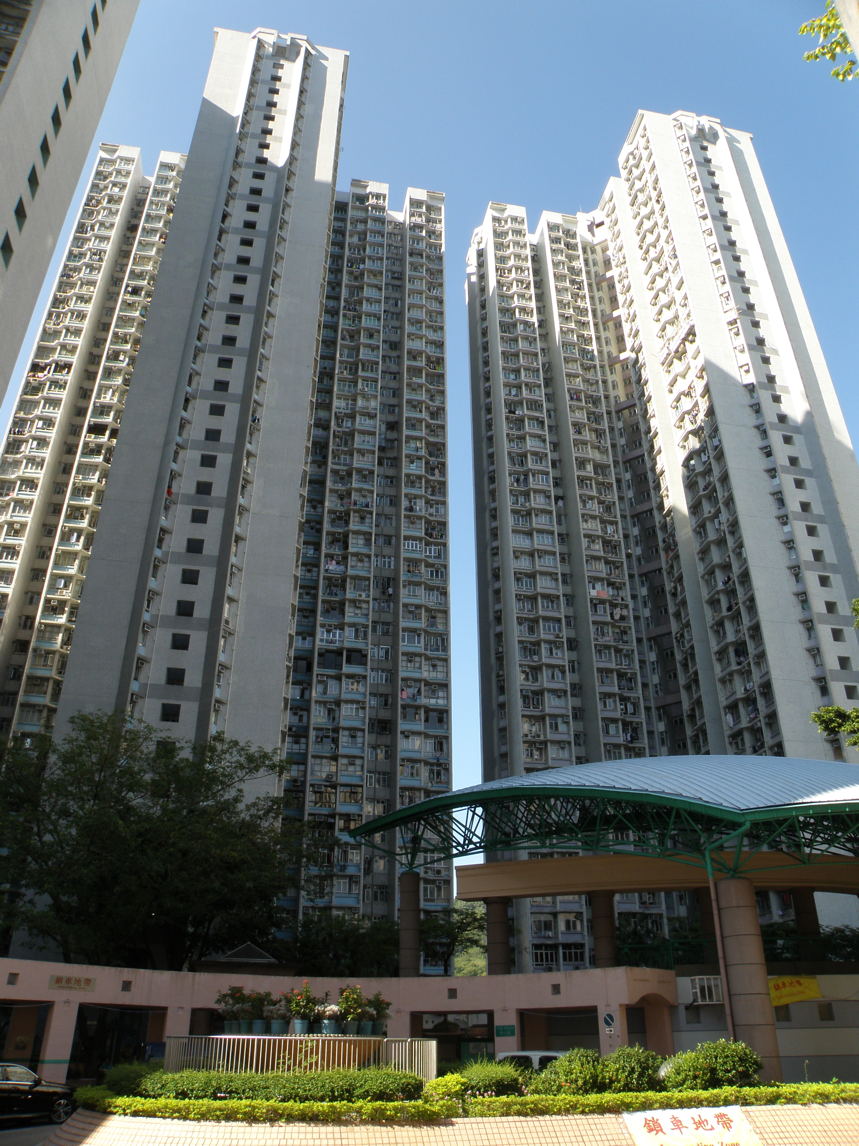 Yu Ming Court in Hang Hau, Hong Kong.